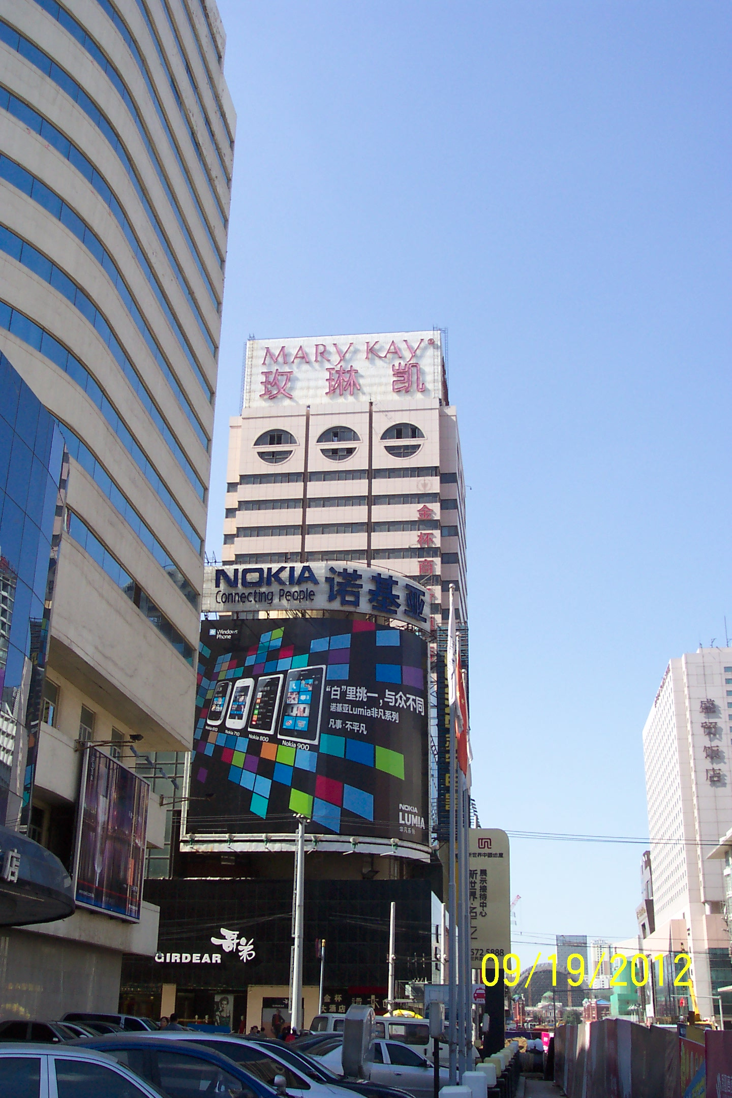 Mary Kay in Shenyang